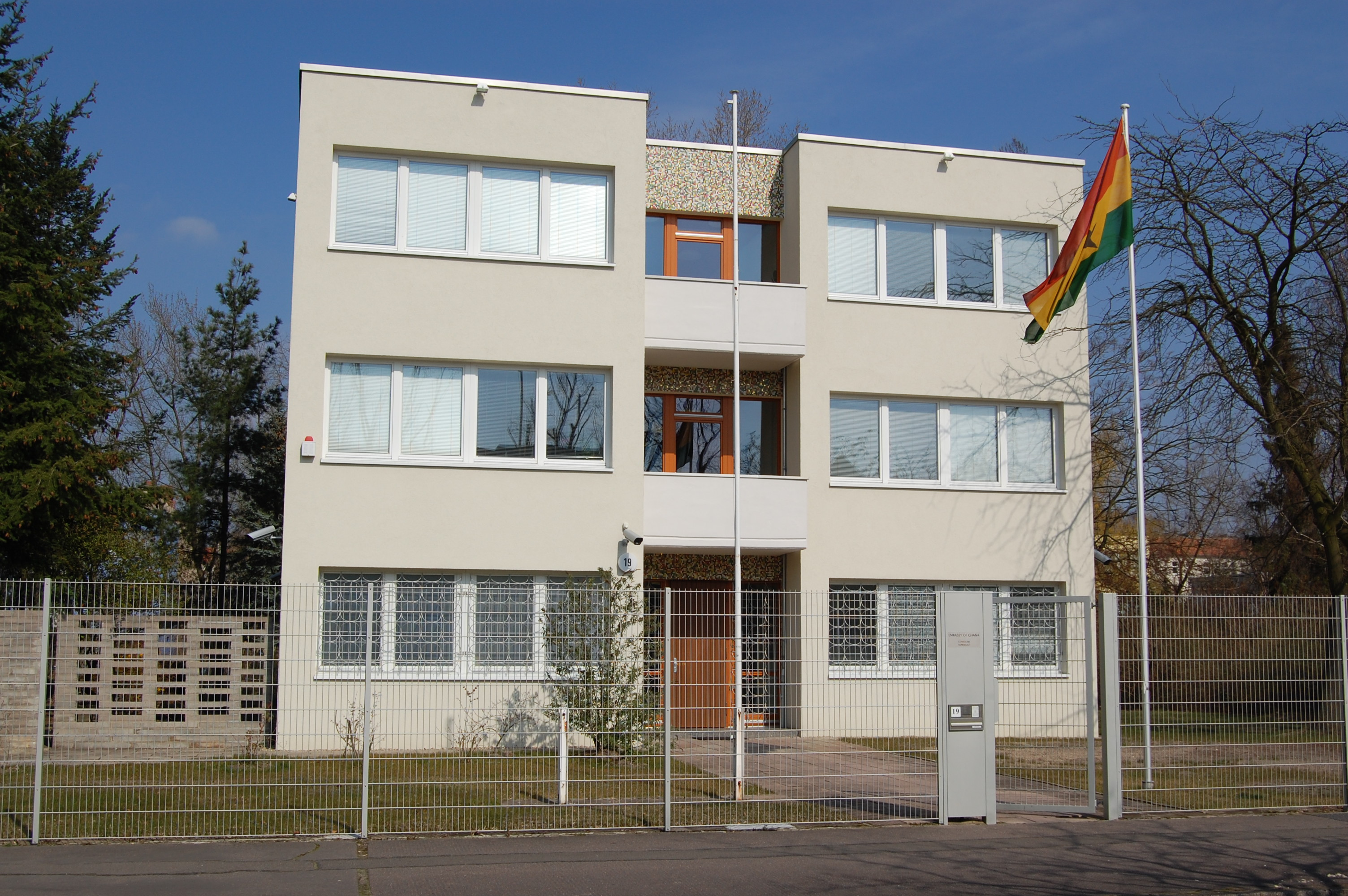 Embassy of Ghana in Berlin